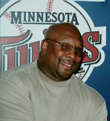 Kirby Puckett during his retirement.